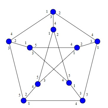 This is an example showing incidence coloring